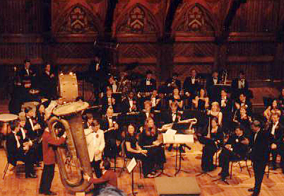 Sam Pilafian playing the BBBb Besson tuba at Sanders Theater Harvard.